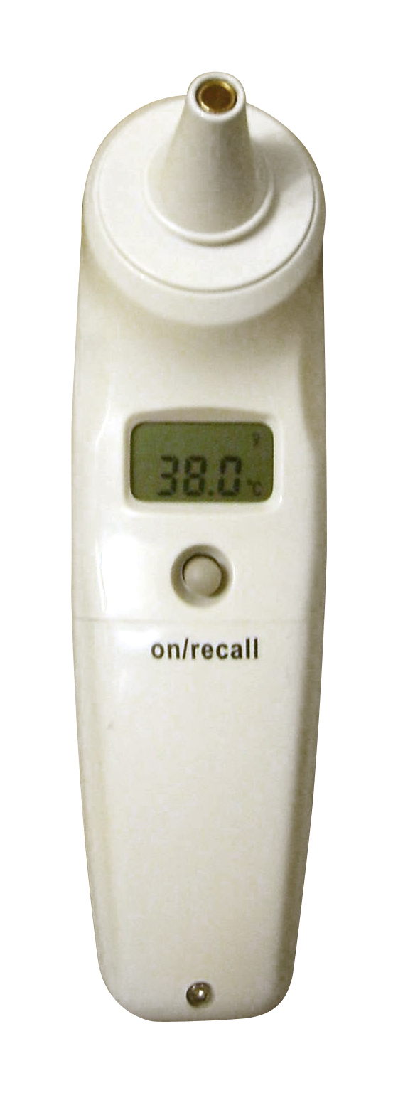 clinical thermometer (ear)